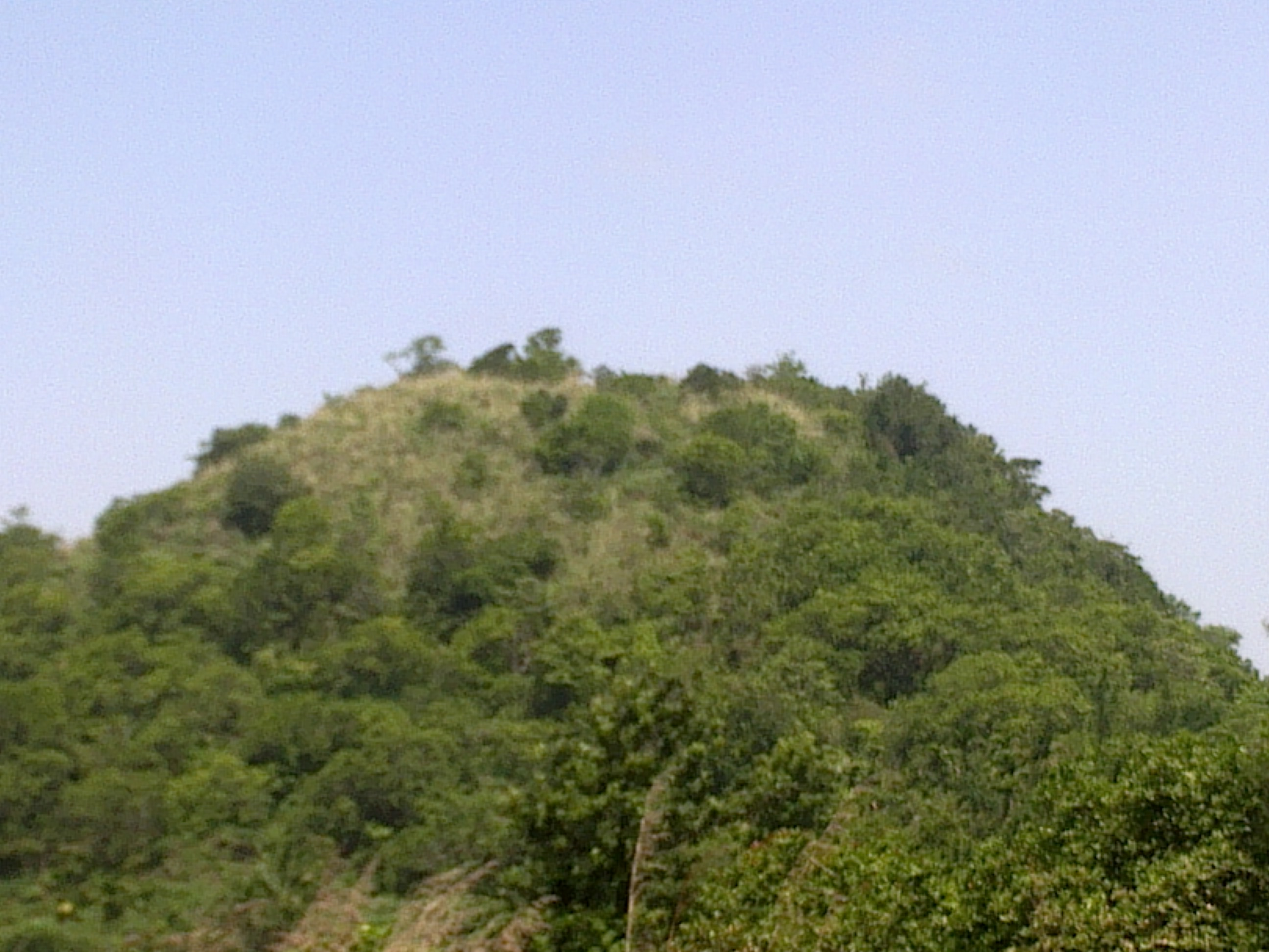 Elapeedika Kurisumala